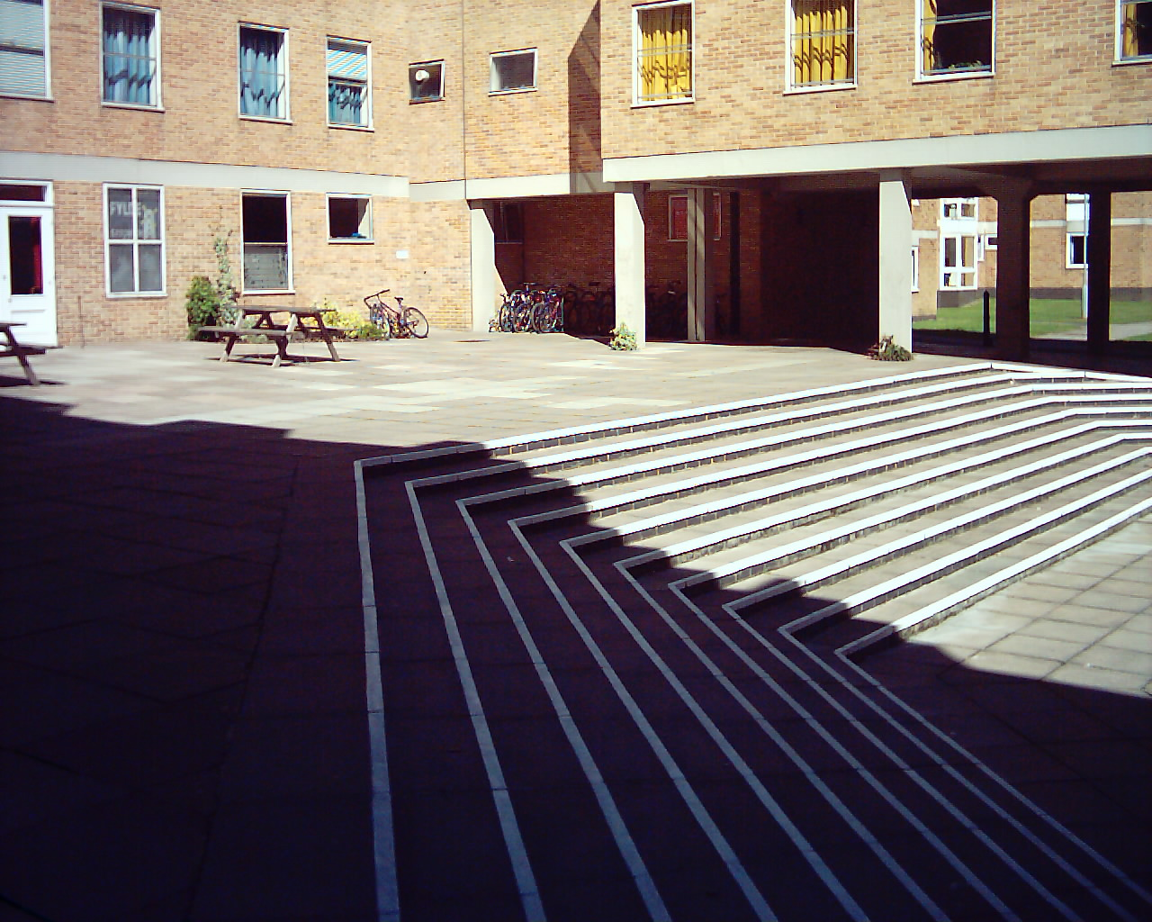 Fylde College, Lancaster University. Taken by myself.